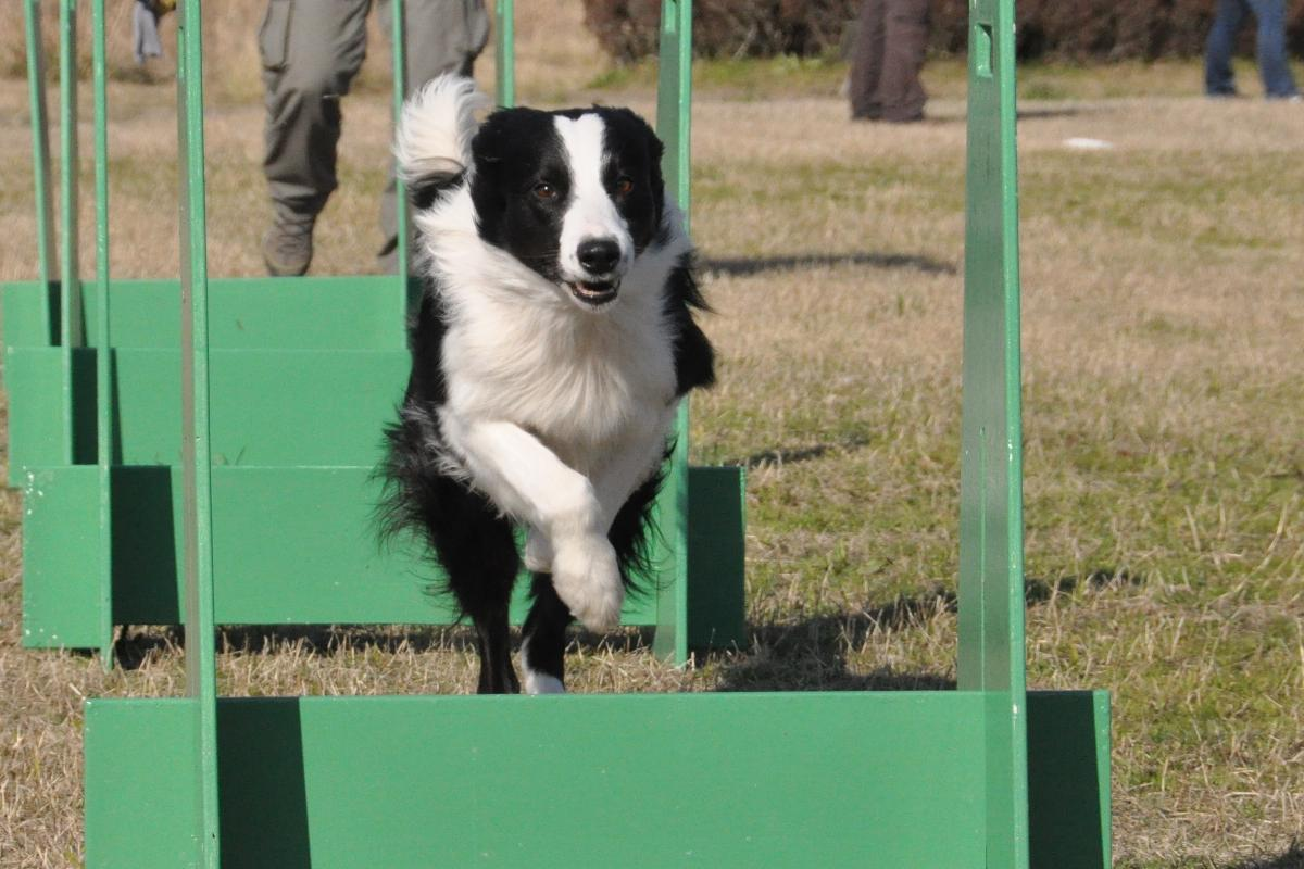 Dog jumps over a hurdle in a flyball game